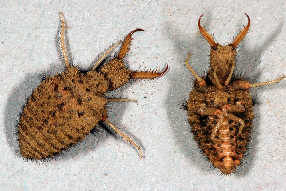 Euroleon nostras, Kelsterbach close to Frankfurt/Main, Germany